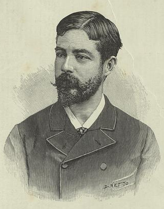 Augusto Cardoso (1859-1930), Portuguese explorer and colonial administrator